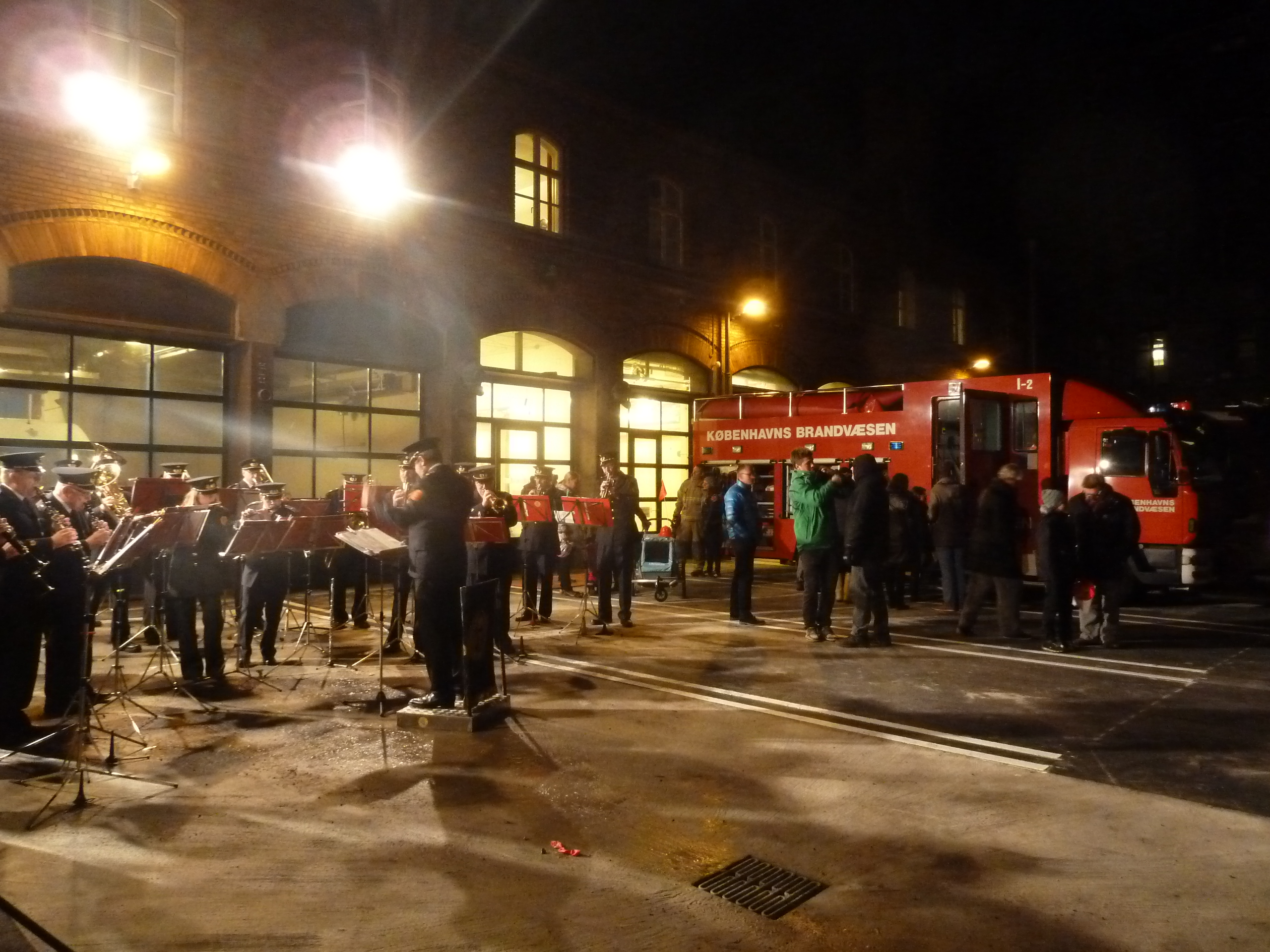 Open house by the Copenhagen Fire brigade at Kulturnatten (the culture night).